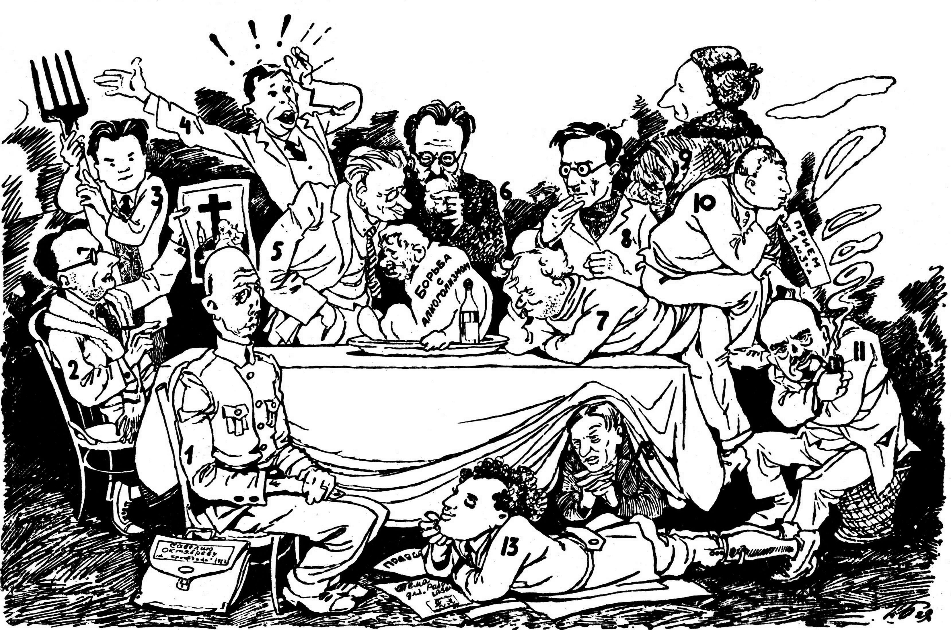 The theme is polished off by: 1) Mr. Savely Oktyabrev (the person born at Krokodil, in the criminal alliance of Gramen and Kumach), 2) Yuly Ganf, 3) P. Maysky, 4) Konstantin Rotov, 5) Nikolay Ivanov (Gramen), 6) Feliks Kon, 7) Vasily Lebedev-Kumach, 8) Leonid Mezhericher, 9) Mikhail Cheremnykh, 10) Lazar Mitnitsky, 11) B. Samsonov, 12) Konstantin Eliseev, 13) Isaak Abramsky.